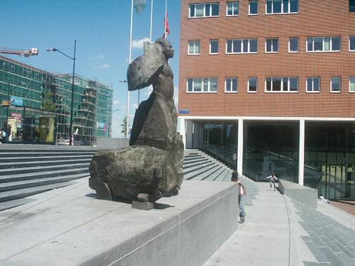 Townhall and monument for Anton de Kom, Amsterdam Zuidoost, the Netherlands